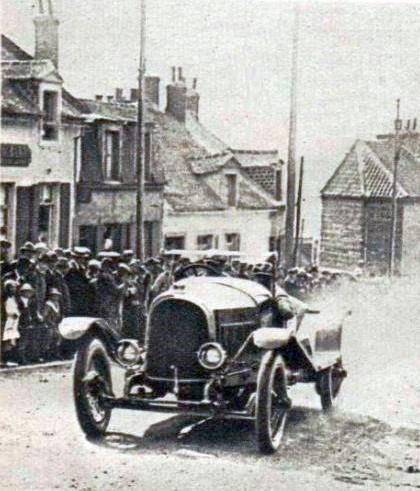 Ernest Artault in a 1920 Voison C1 winning a race at Boulogne-sur-Mer on August 22, 1920.[1] Published in the newspaper Miroir des Sports on August 26, 1920, page 128.